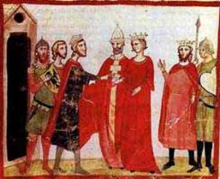 Marriage of Isabel II of Jerusalem and Friedrich II